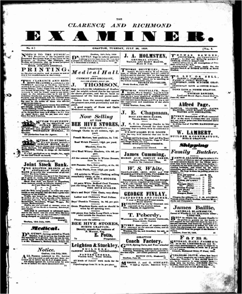 Coverpage of a historic newspaper from New South Wales, Australia.